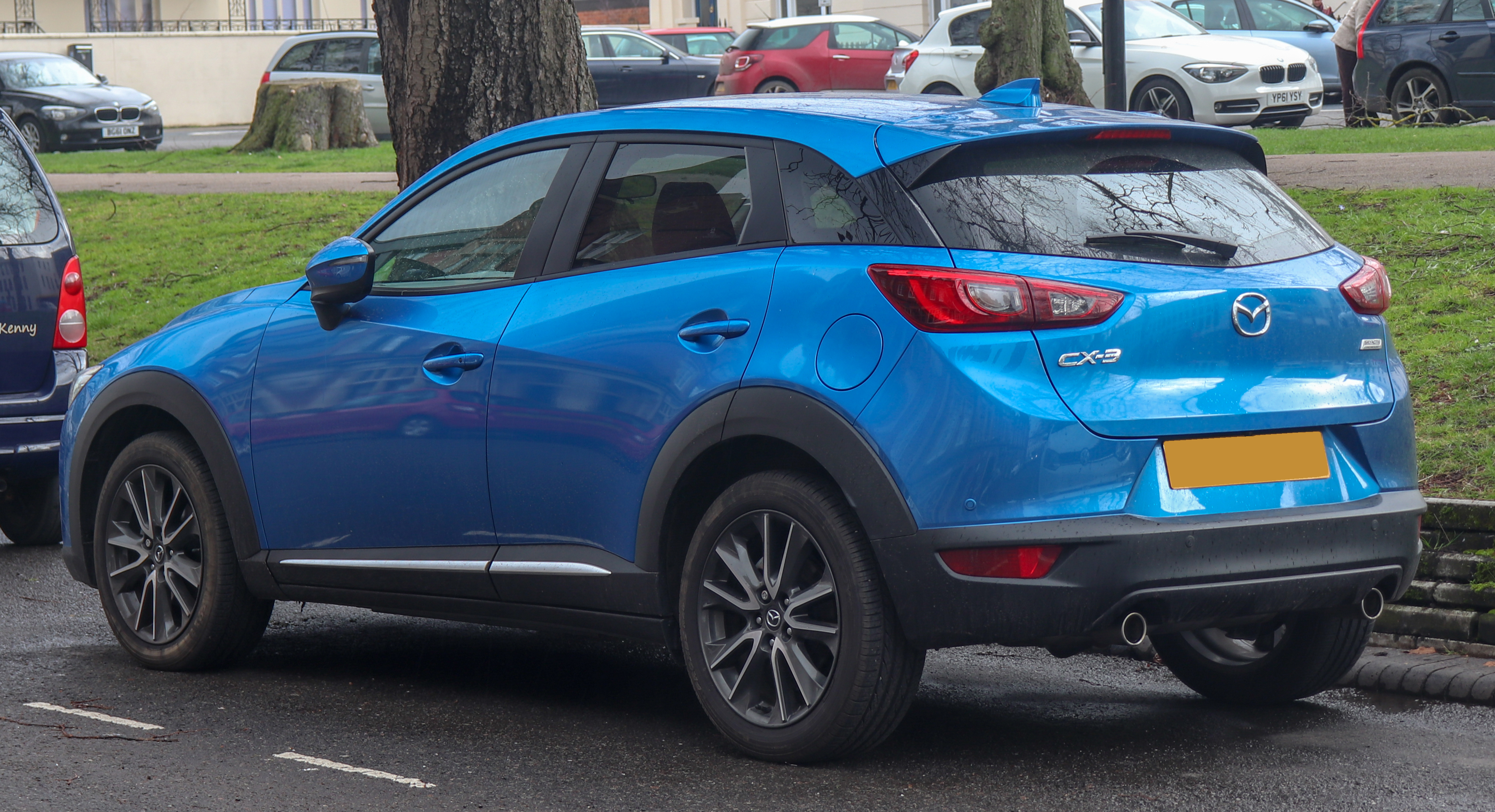 2017 Mazda CX-3 Sport NAV Automatic 2.0 Rear Taken in Leamington Spa